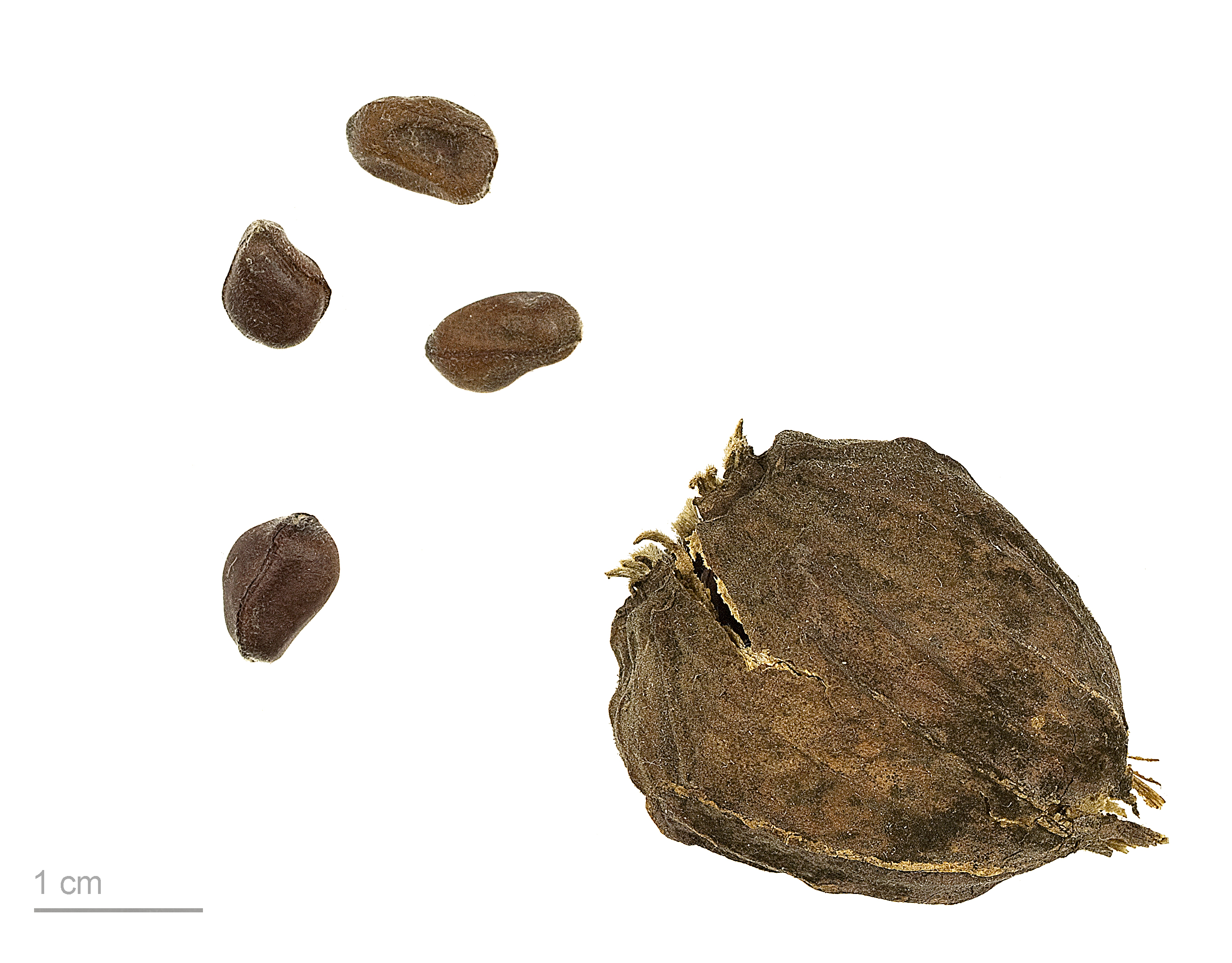 Carolina sweetshrub, fruits and seeds